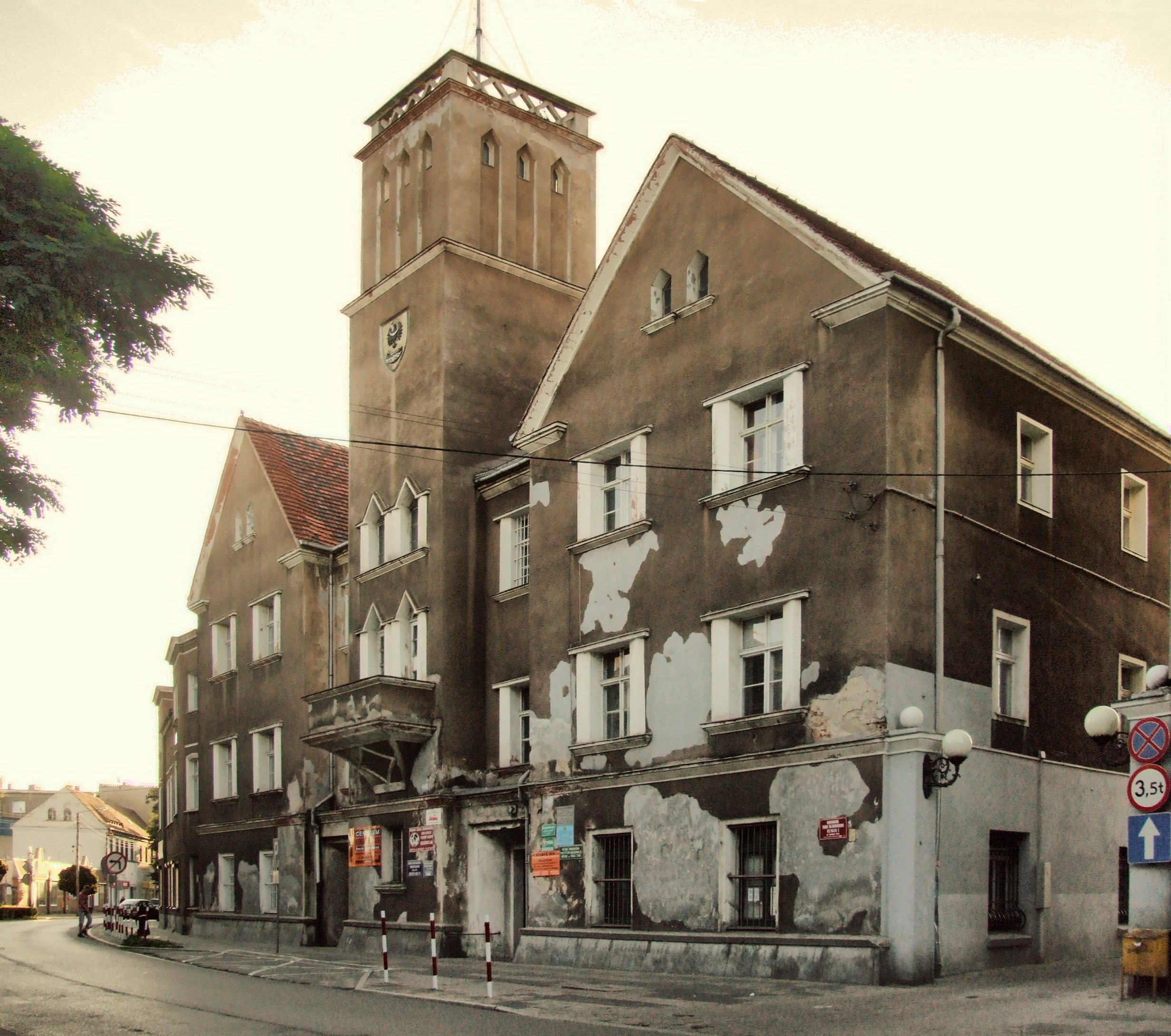 Former Town Hall in Nowa Sól, Poland